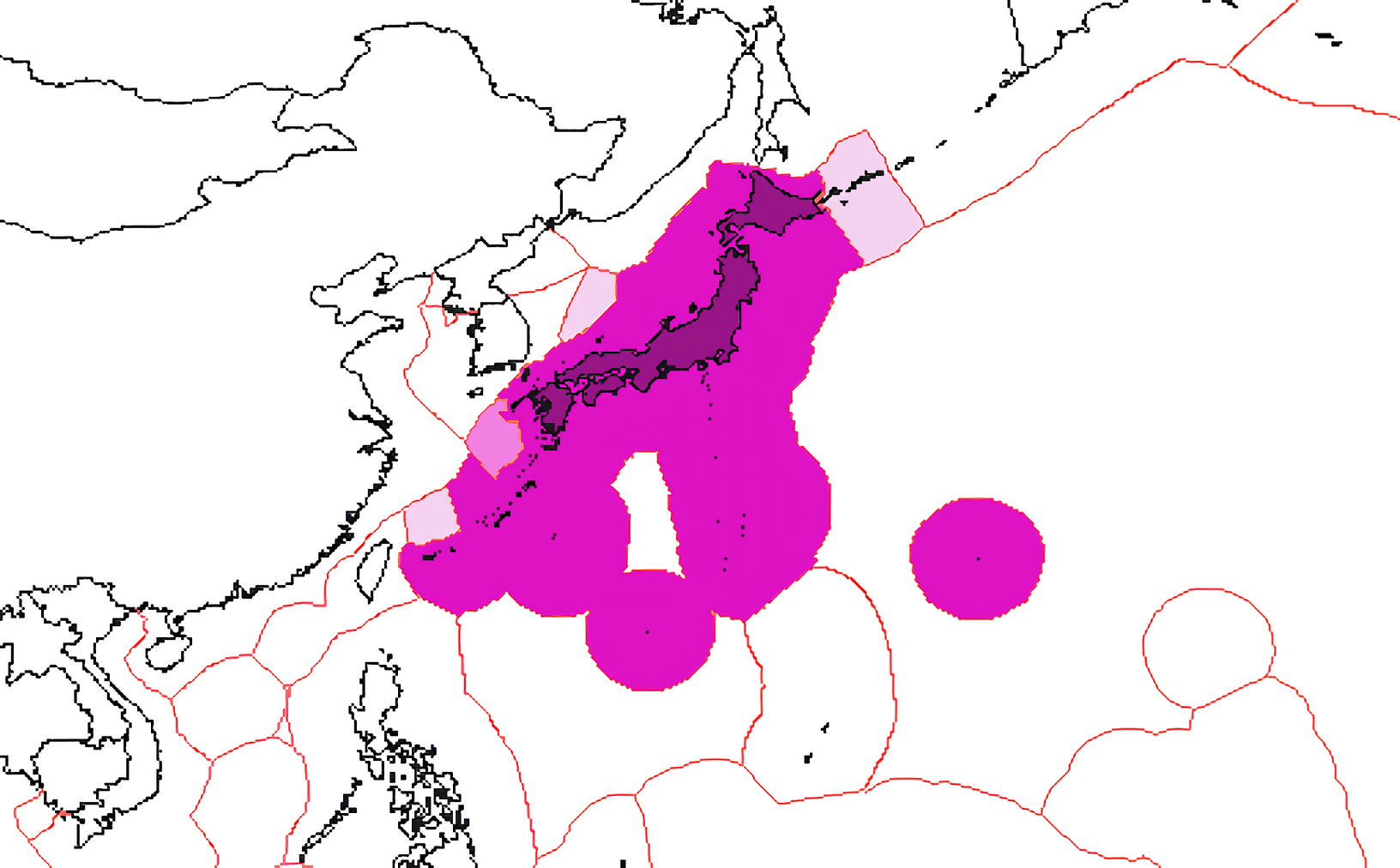 Japan's Exclusive Economic Zones Japan's EEZ joint regime with South Korea EEZ claimed by Japan, disputed by others